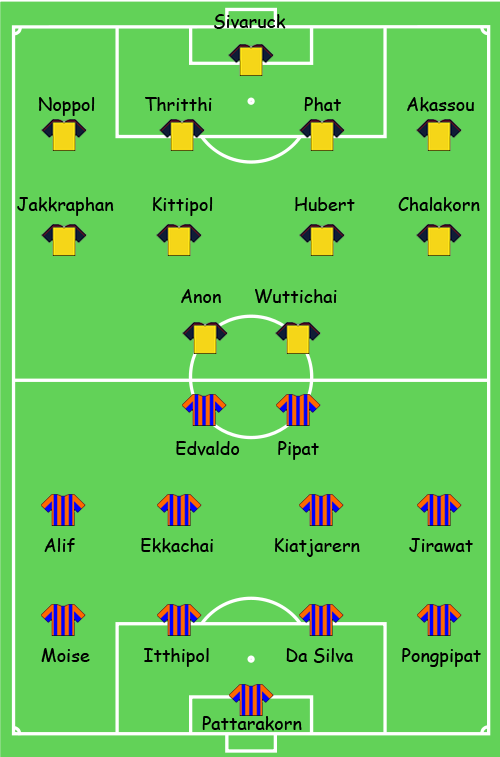 2009 Thai FA Cup Final line-up players